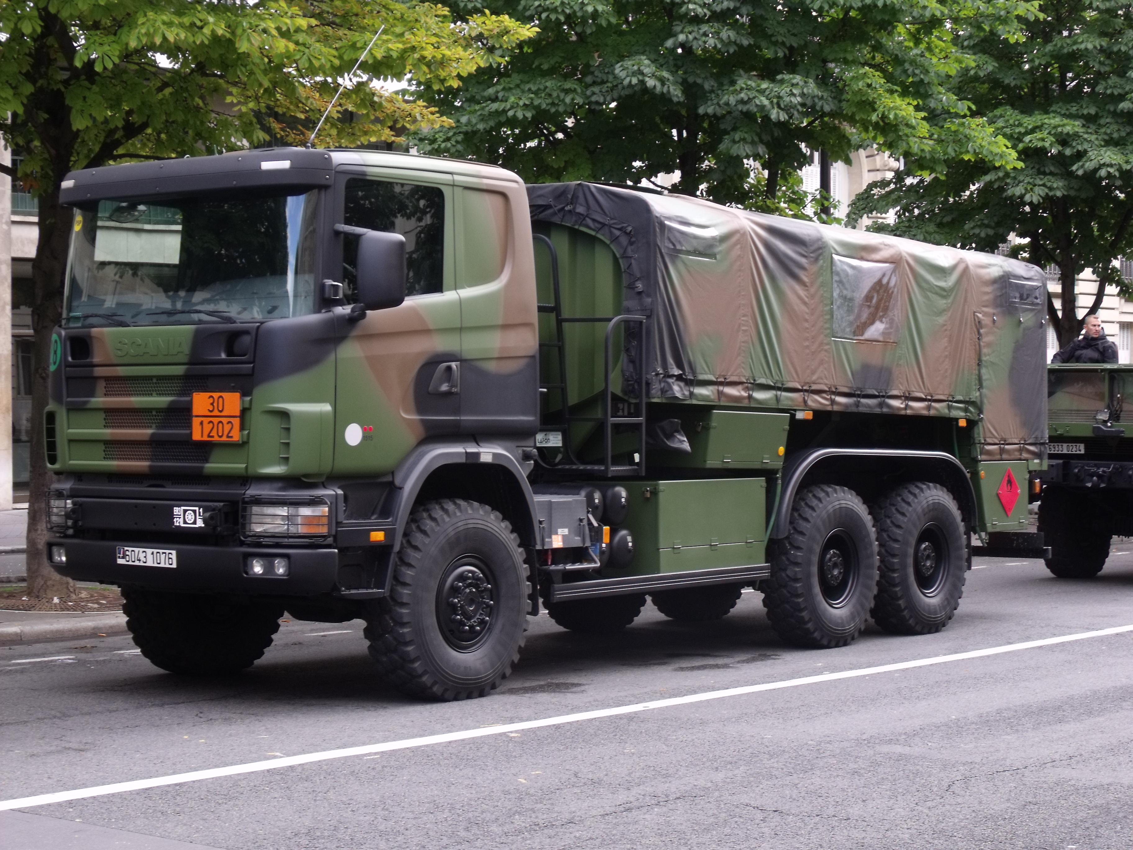 All-wheel drive truck, used as a tanker vehicle with a capacity of 10 cubic meters. Its tank has a capacity of 600 liters of diesel or jet fuel.